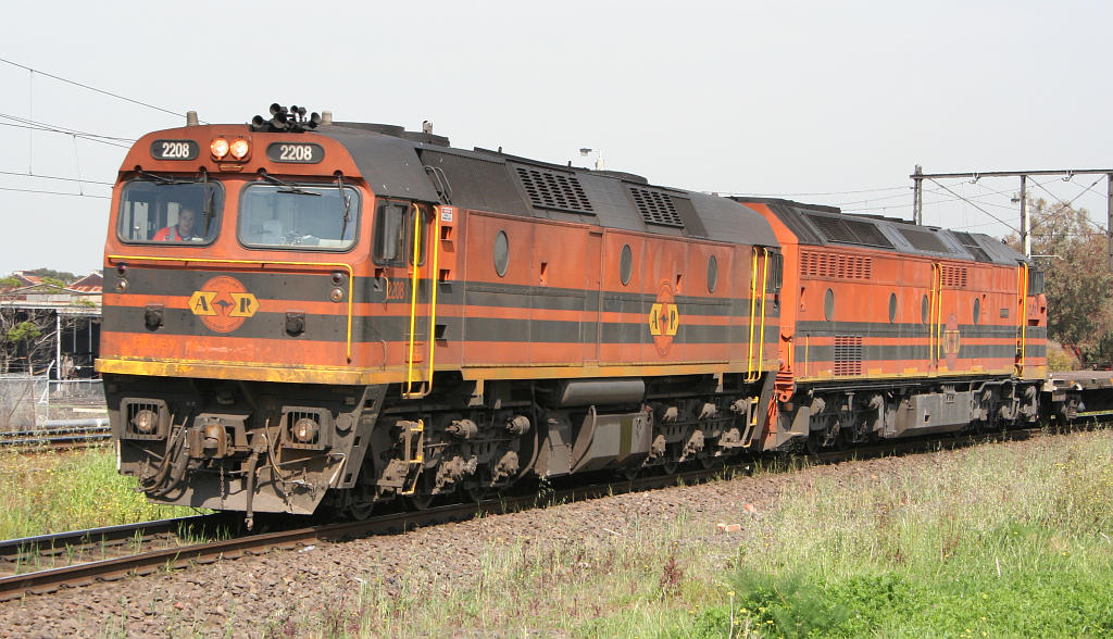 New South Wales 422 class locomotive renumbered as 2208 and operated by Australian Southern Railroad, Victoria